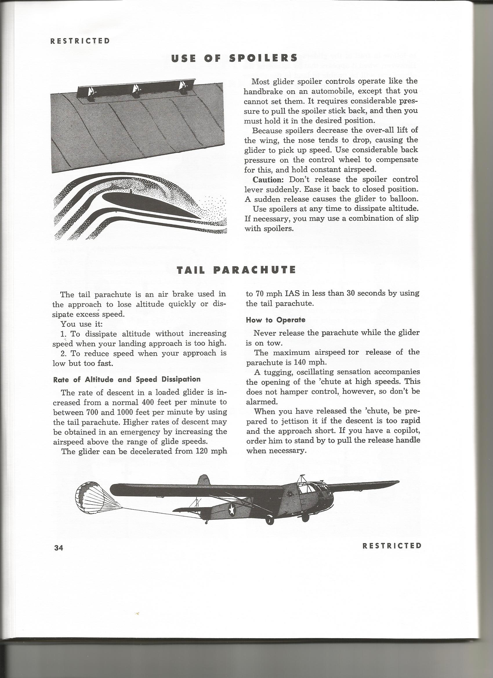 Pilot Training Manual for the CG-4A Glider